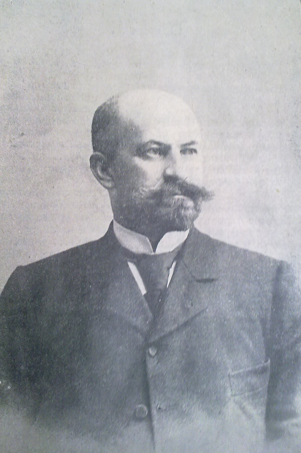 Bulgarian zoologists Georgi Hristovich (1863-1926)